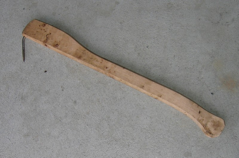 A norwegian gaff Norsk (bokmål): ein vanleg norsk klepp